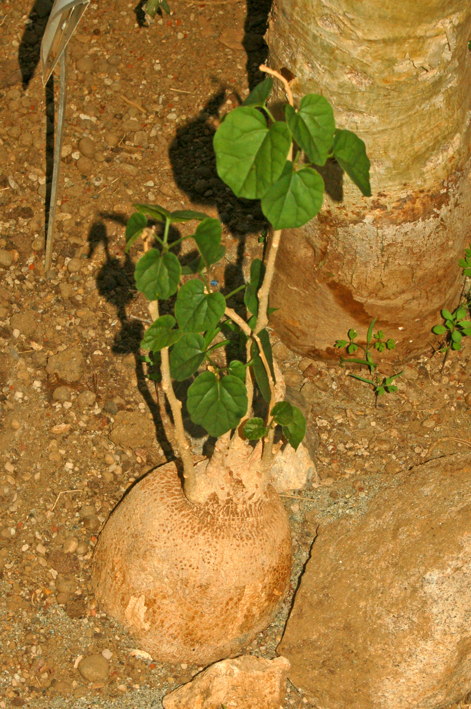 Pyrenacantha malvifolia at the botanical garden of Villa Durazzo-Pallavicini, Genova Pegli